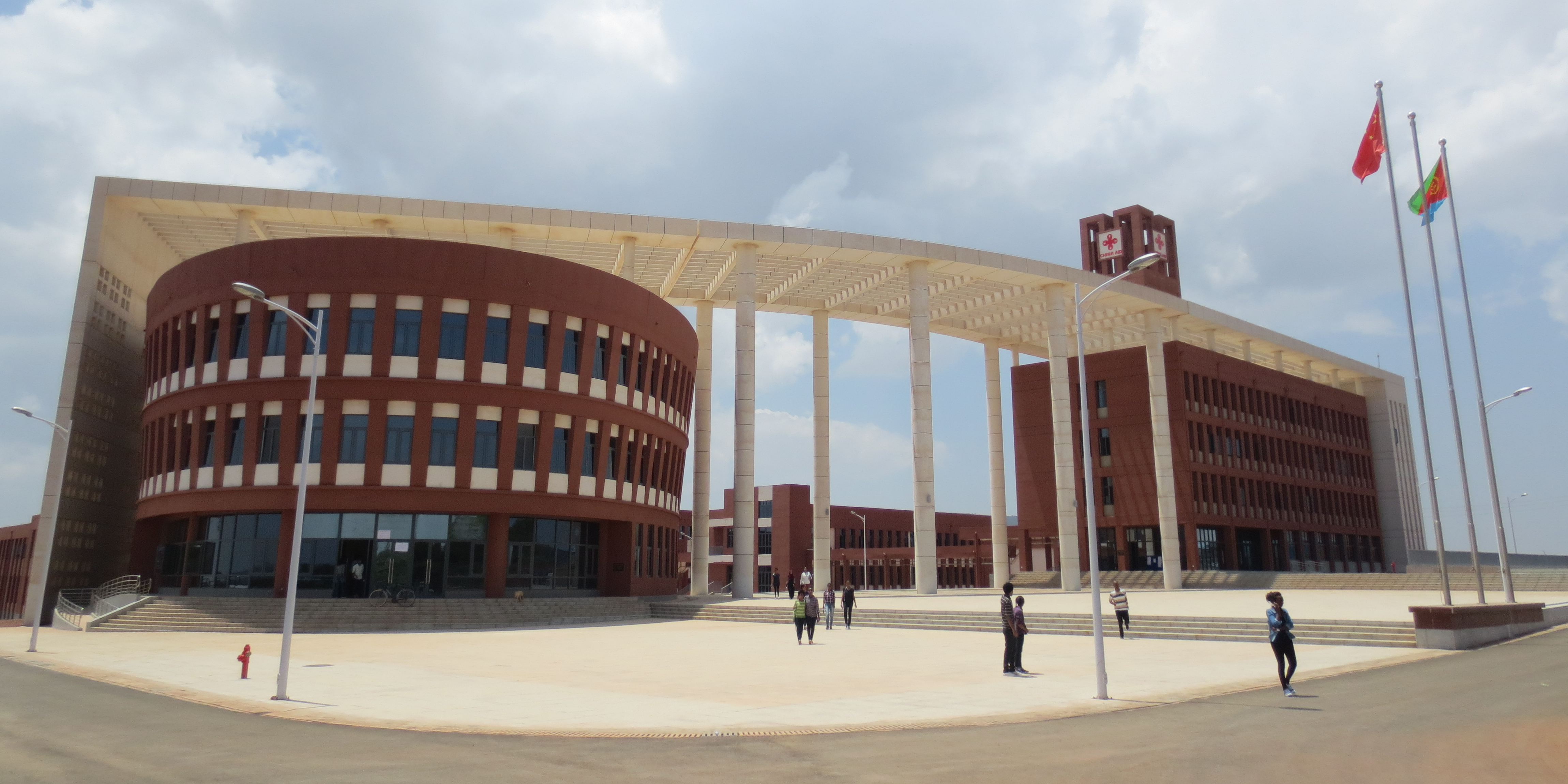 The new builings of the Eritrea Institute of Technology, being built with Chinese help between 2014 and 2016. The EIT is located south west of Asmara, the capital of Eritrea.